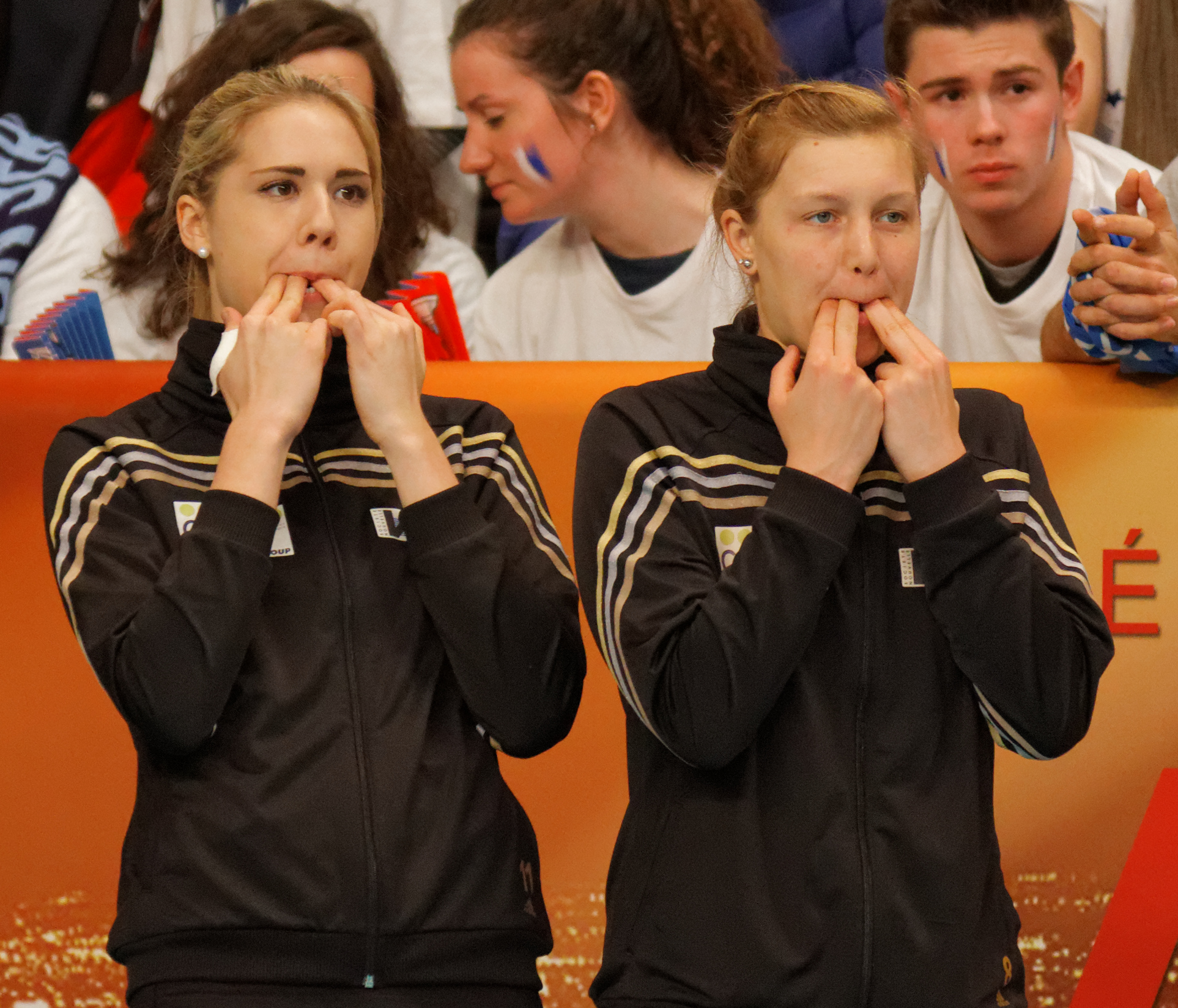 Final of the Volleyball French Cup, Racing Club de Cannes - Stella Étoile Sportive Calais, March 30, 2013.